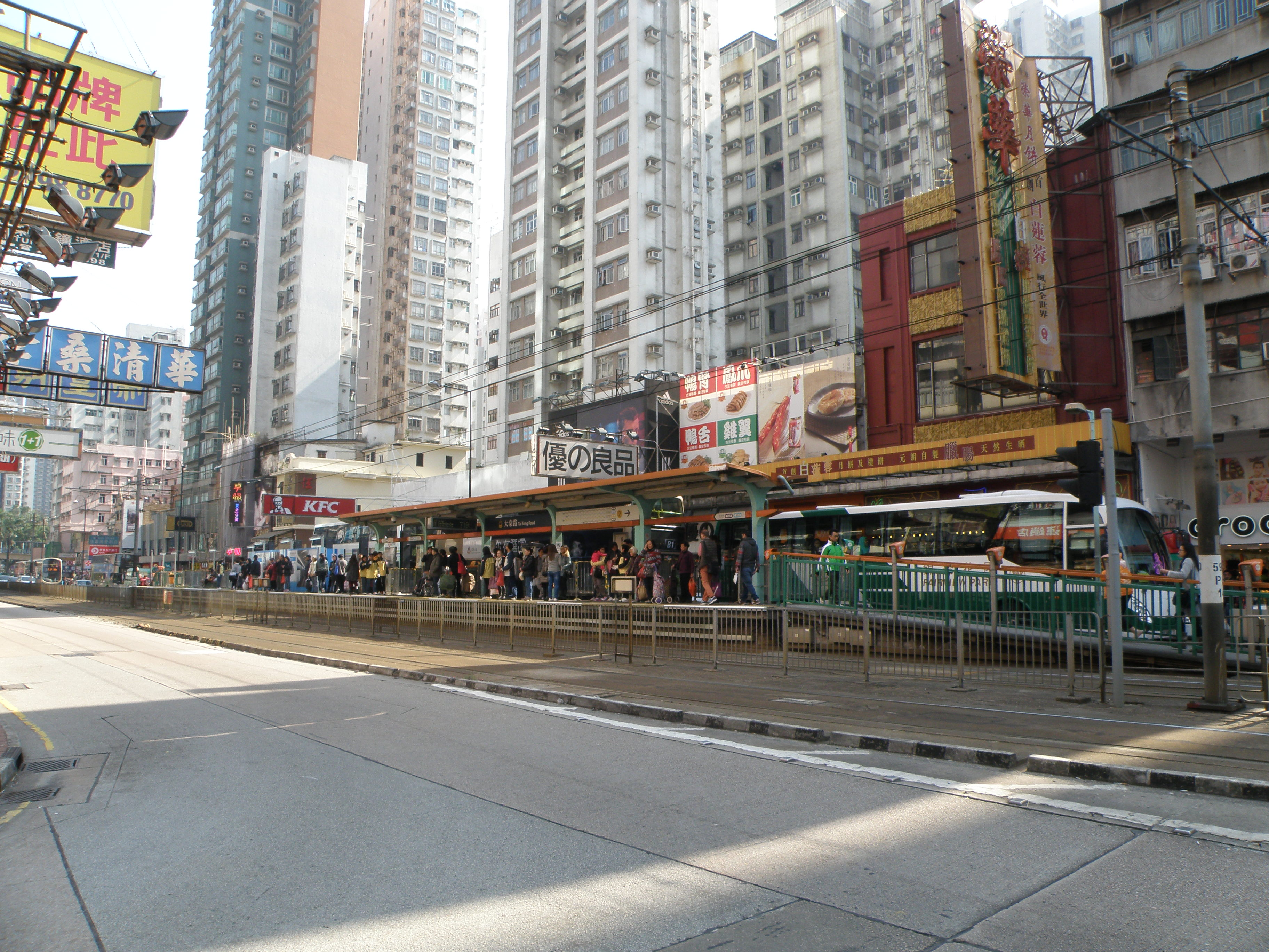 Tai Tong Road Stop in Yuen Long, Hong Kong.